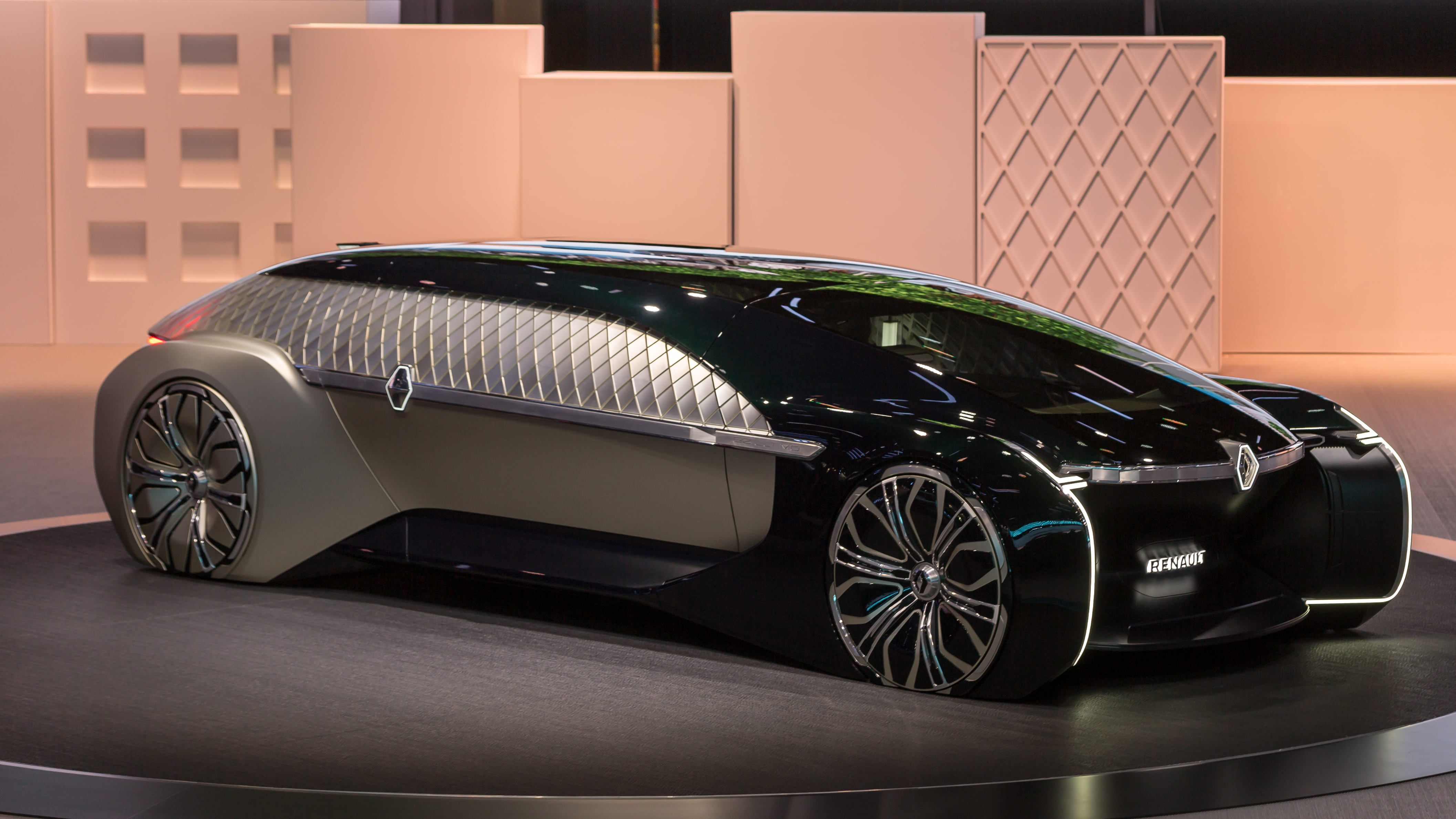 Renault, Mondial Paris Motor Show 2018